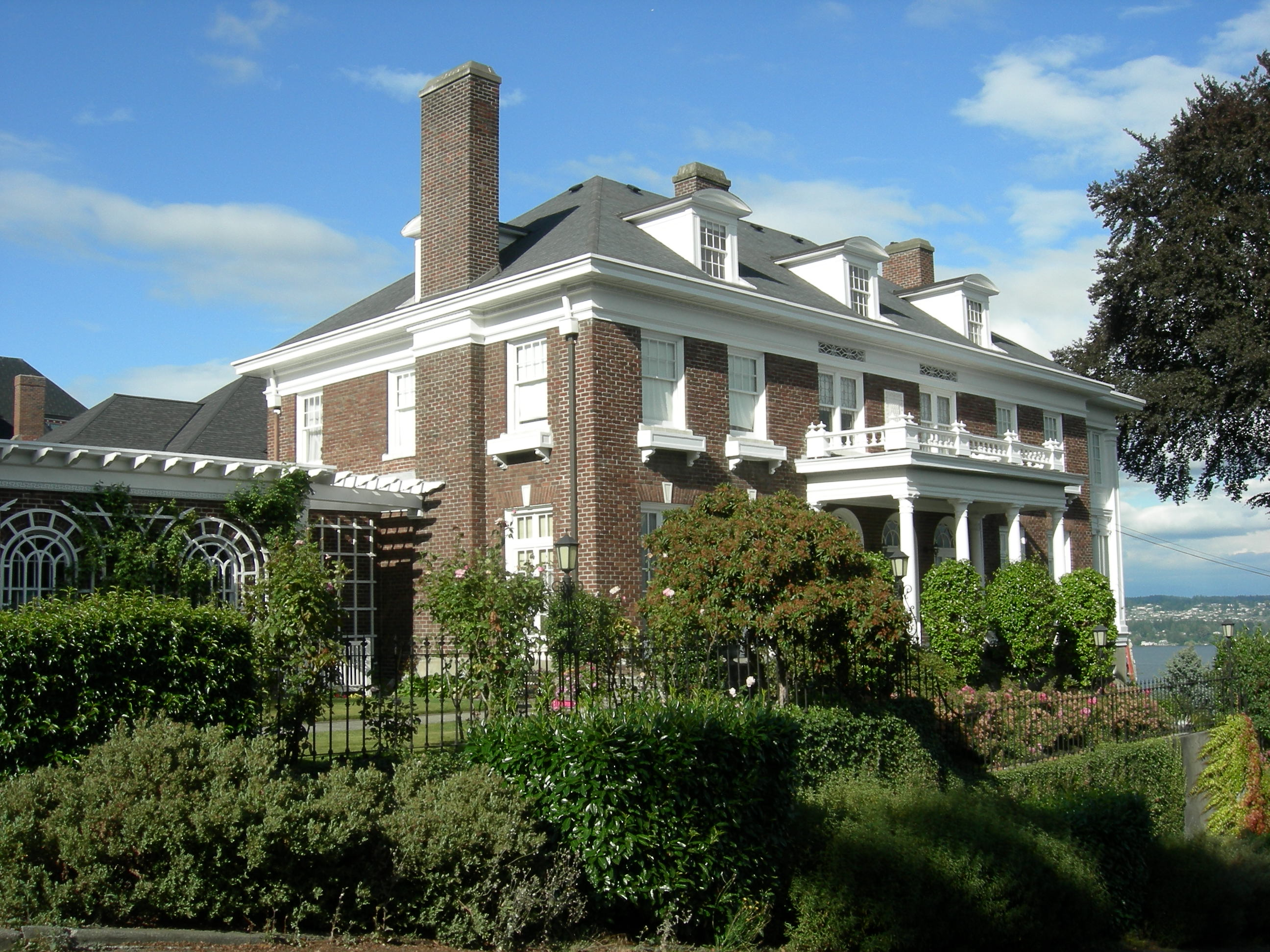 Raymond-Ogden Mansion, 702 35th Ave, Madrona neighborhood, Seattle, Washington. Designed by Joseph Coté, built 1913 as the residence of surgeon Alfred Raymond; later the residence of Myron W. Ogden. The brick Colonial Revival house is also known as "Belvedere" or as the Myron Ogden House. National Register of Historic Places ID Number 79002539; also has city landmark status.